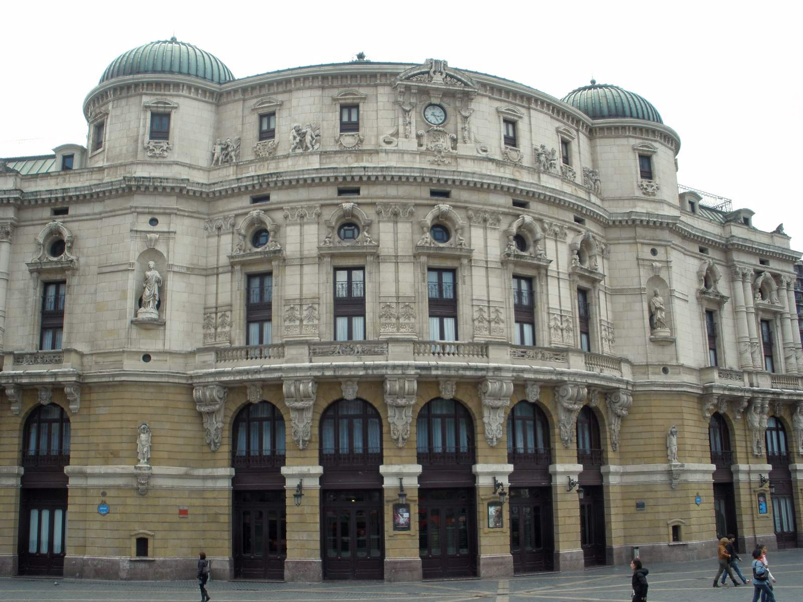 Teatro Arriga, Bilbao